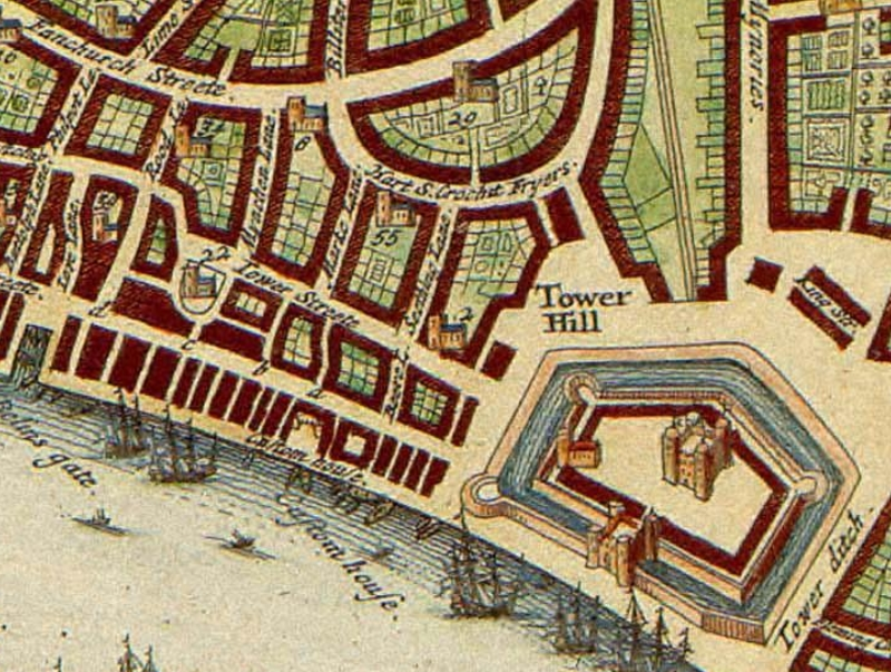 Extract from Hollar's map of London.